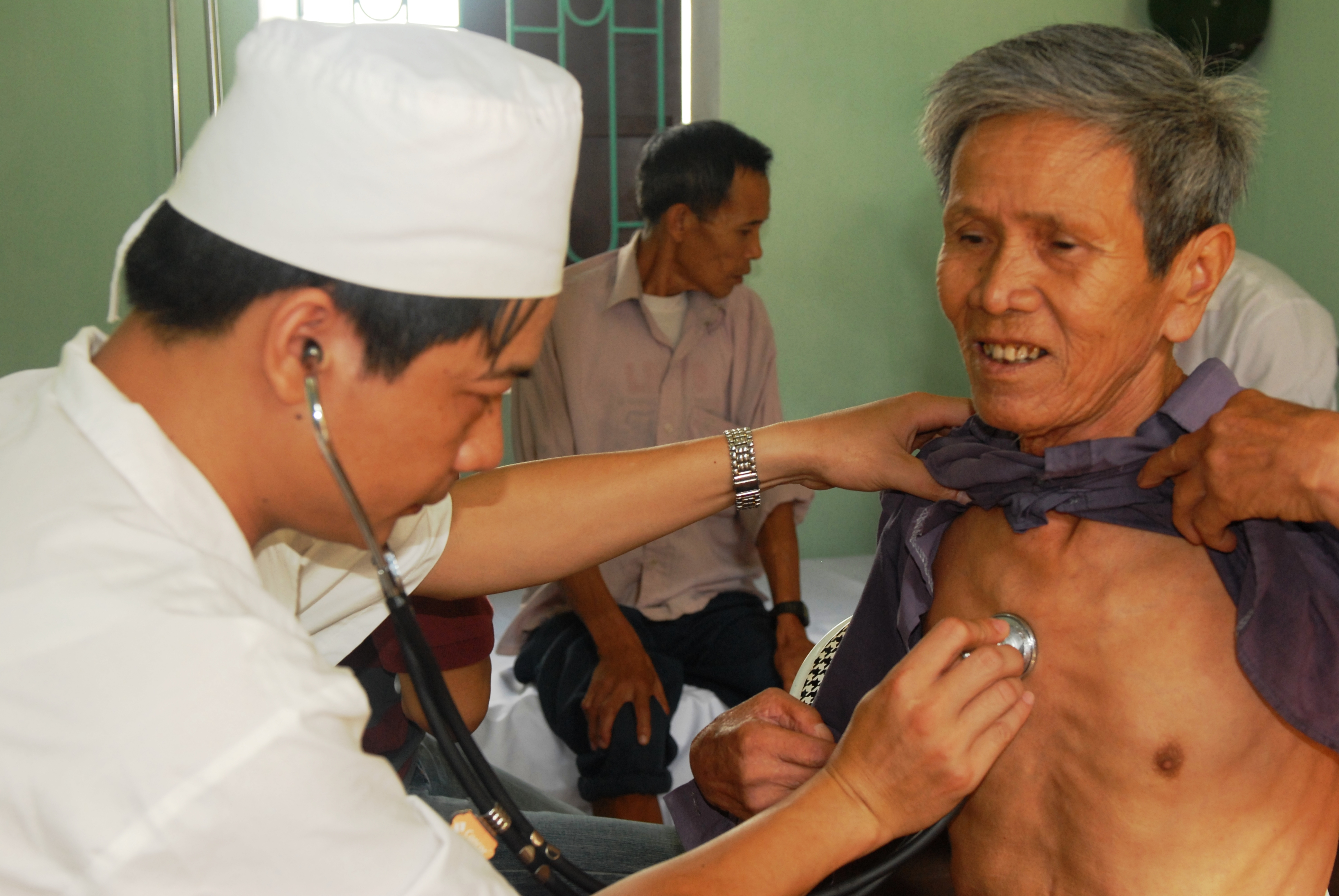 A doctor of the Vietnamese Army examines an elderly man in the bac Ninh Province of Vietnam, July 11.